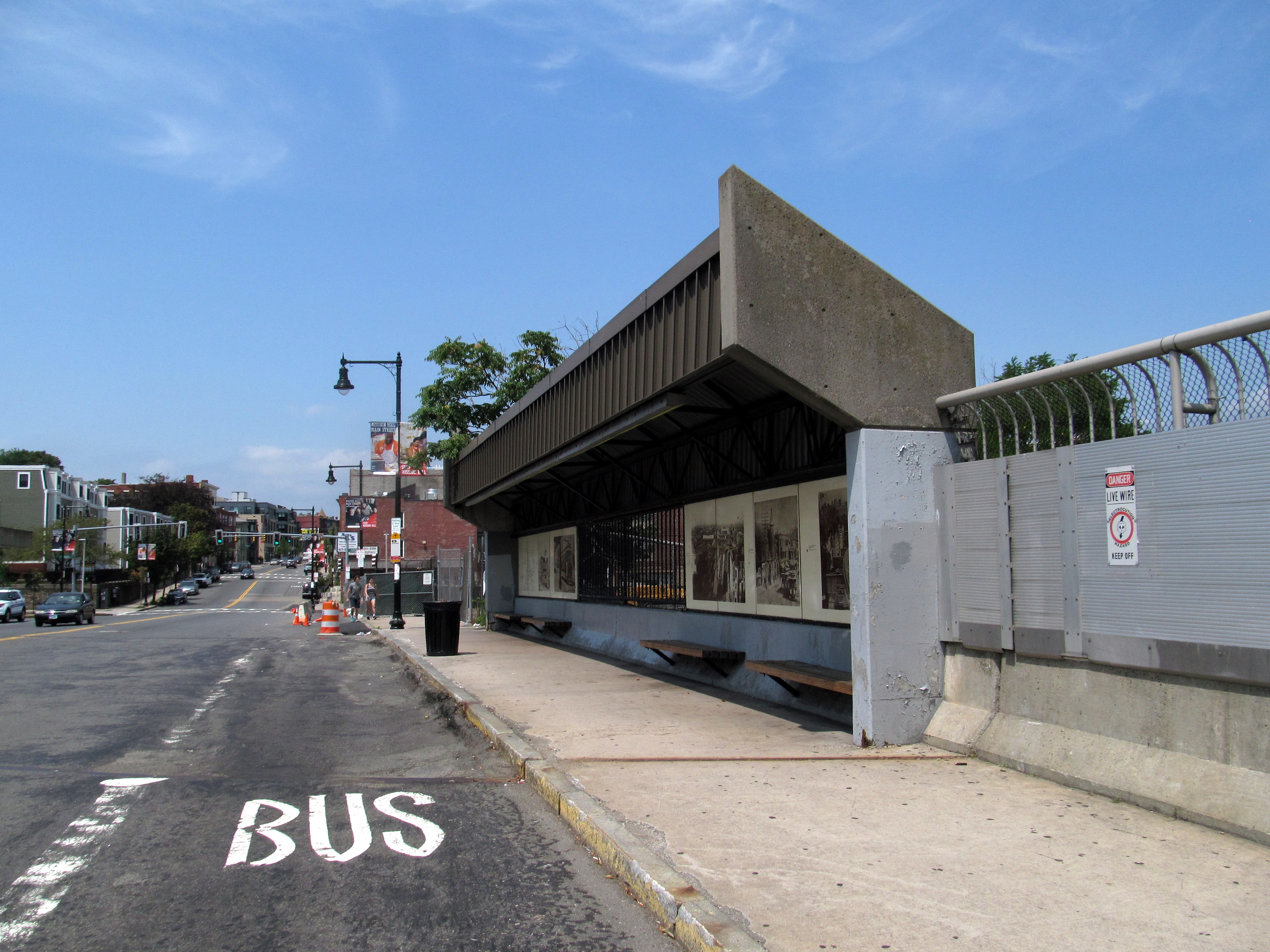 Bus shelter for northbound route 66 buses at Roxbury Crossing station in July 2016